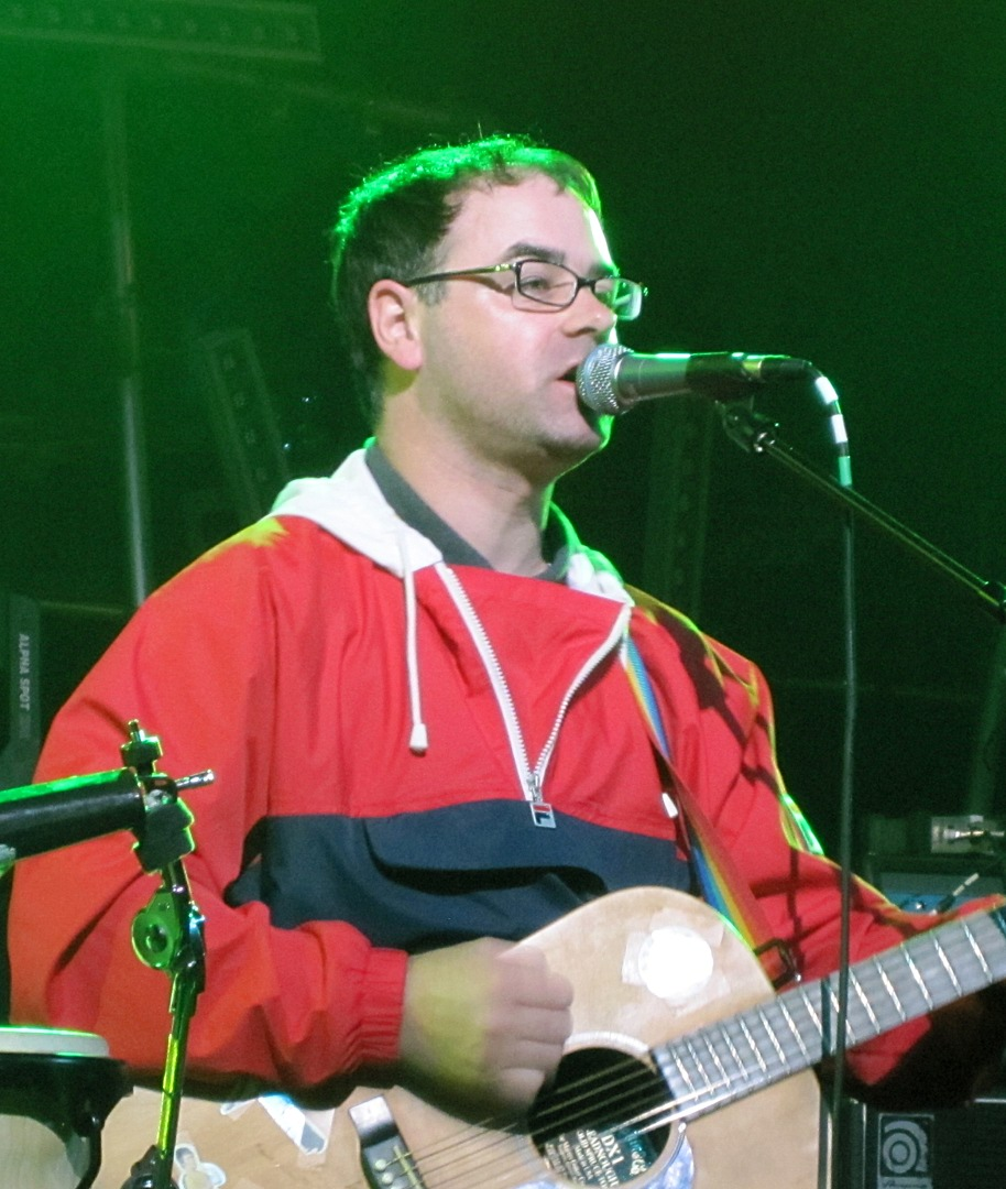 Steve mason performing at the Summer Sundae festival, Leicester, 2010